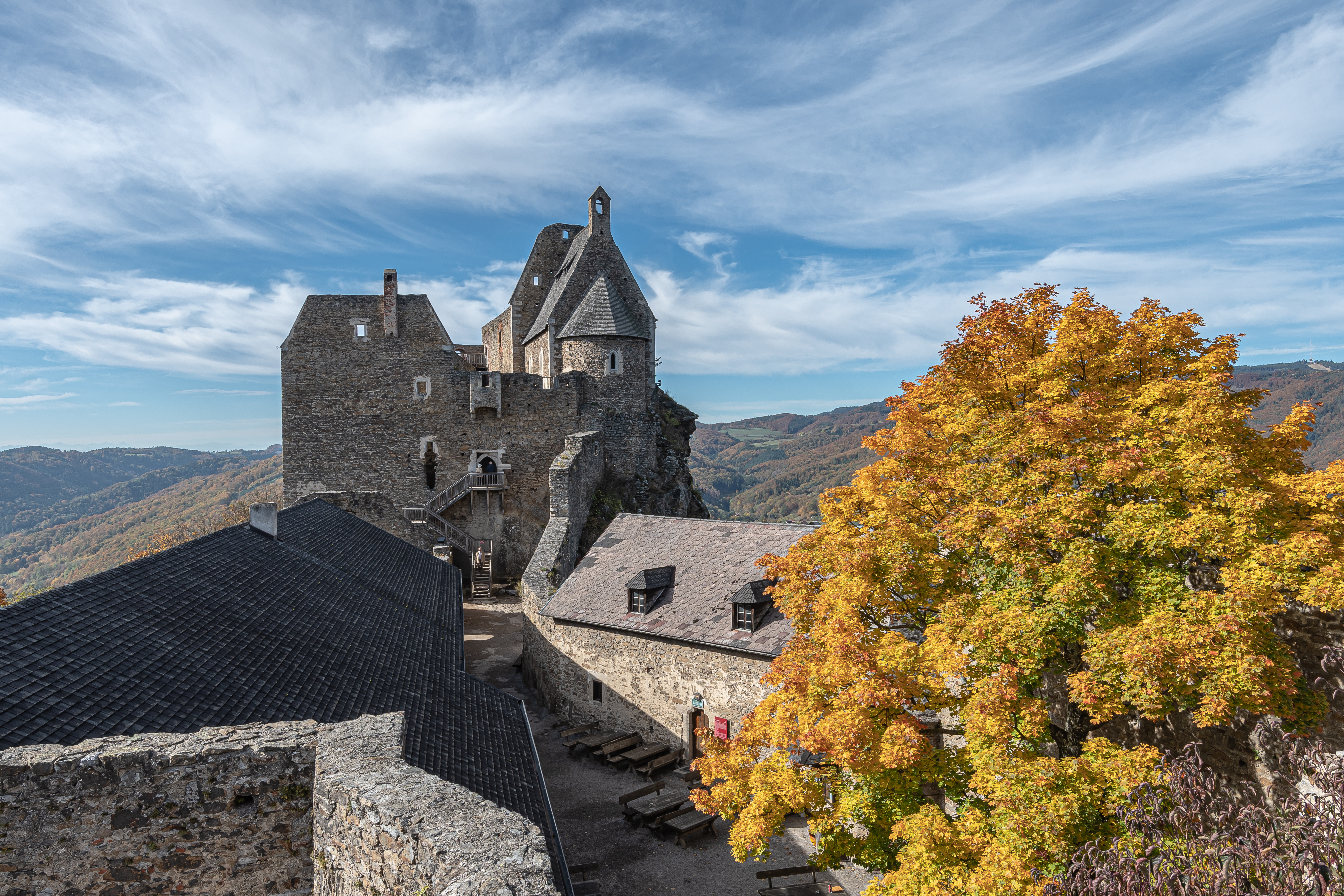 Aggstein Castle is a ruined castle on a rock on the right bank of the Danube in Wachau, Austria. It dates back to the 12th century.